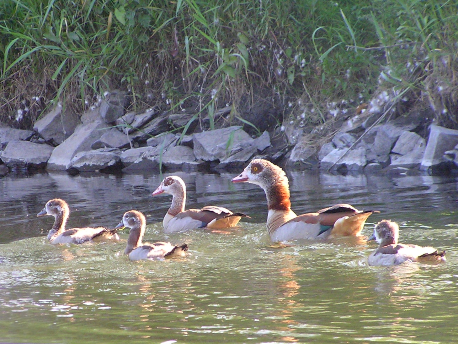 Egyptian Goose